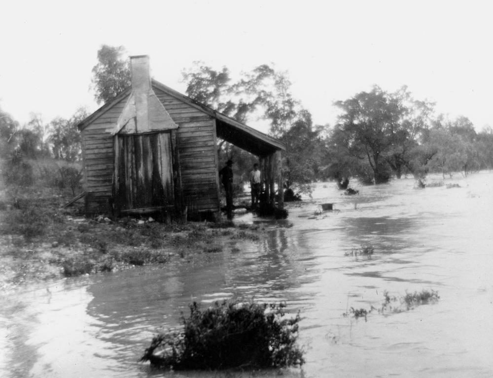 House flooded by the Barcoo River, 1906. Rough, timber house affected by the Barcoo River in spate. Two men stand under the awning as the water encroaches upon the property. The coordinates given by the source place this house's location close to the normal course of the Barcoo approximately 250 kilometres downstream (west) from Tambo.